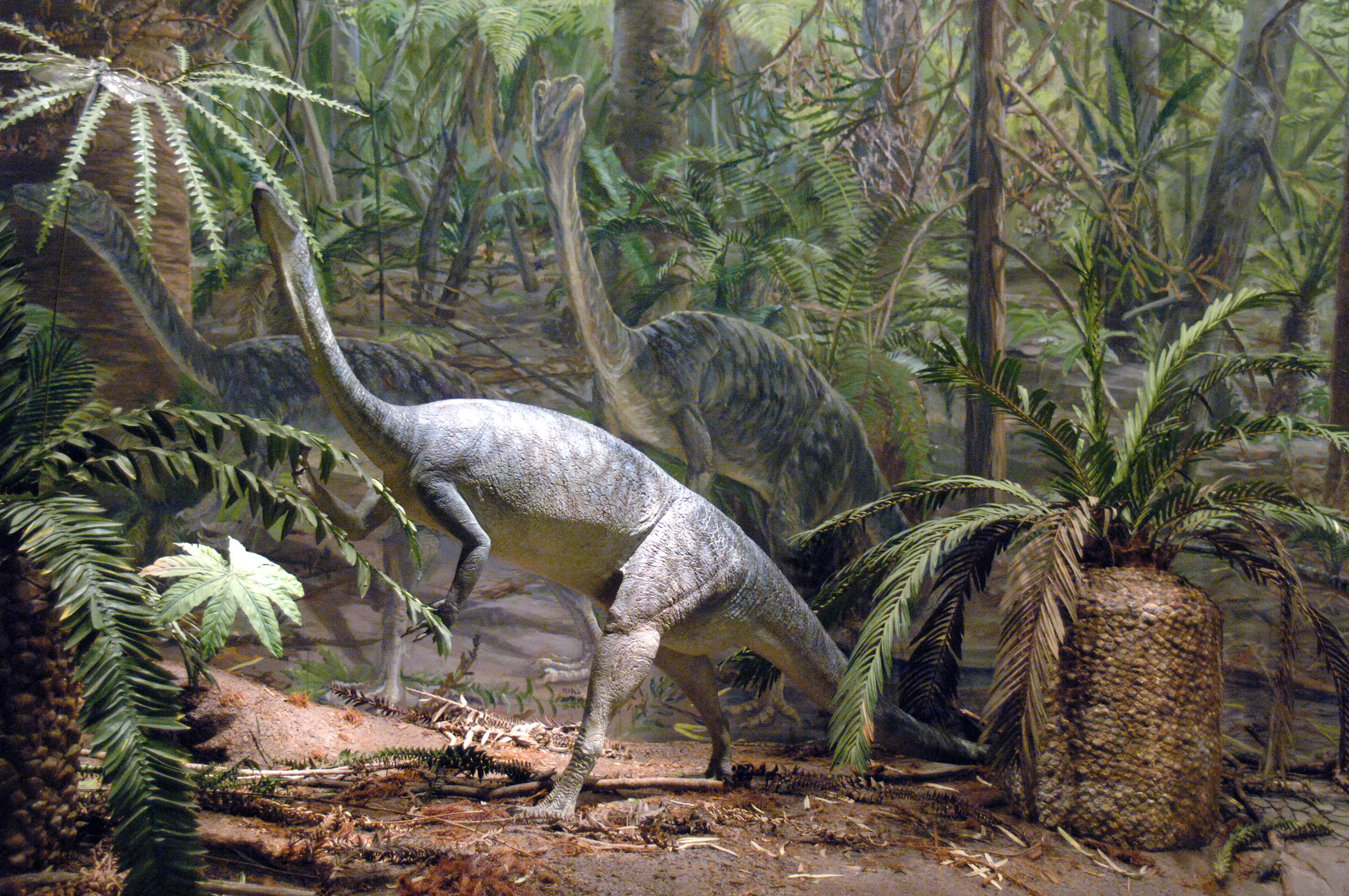 THIS IS A CLOSEUP OF A PORTION OF THE LARGE AND BEAUTIFUL MURAL WHICH OCCUPIES THE ENTIRE HALL IN THE PARK'S MAIN BUILDING